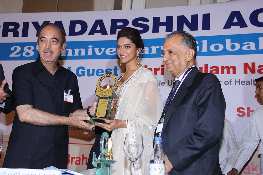 Priyadarshini Academy Felicitates Deepika Padukone With Smita Patil Global Award.